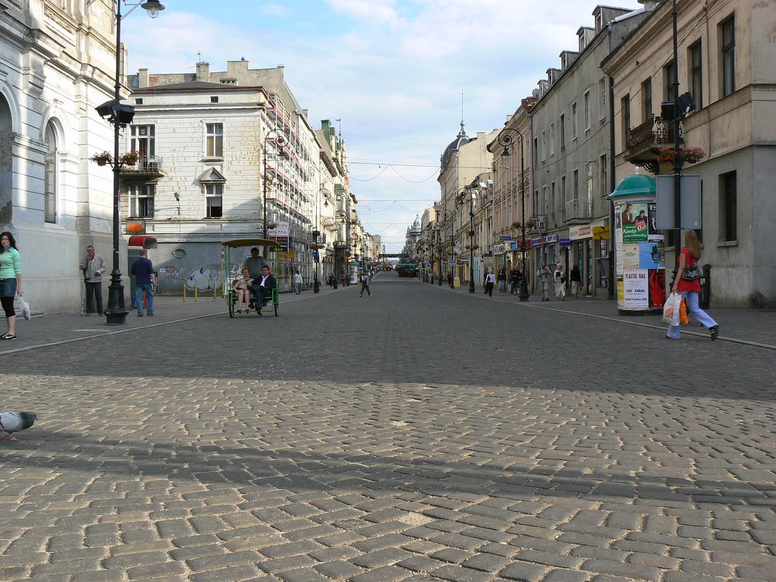 Liberty Square in Łódź